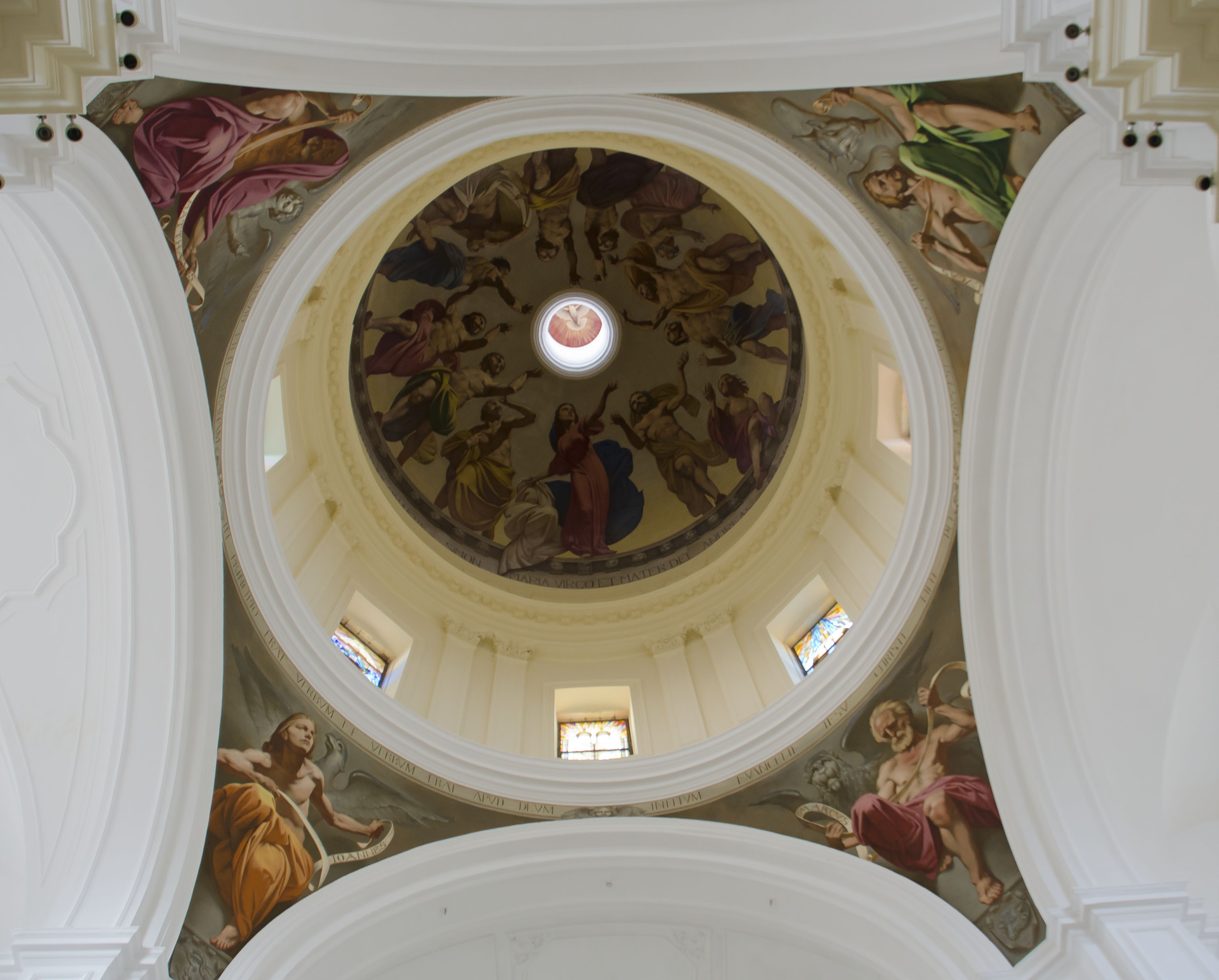 Cupola, cathedral, Noto, Sicily